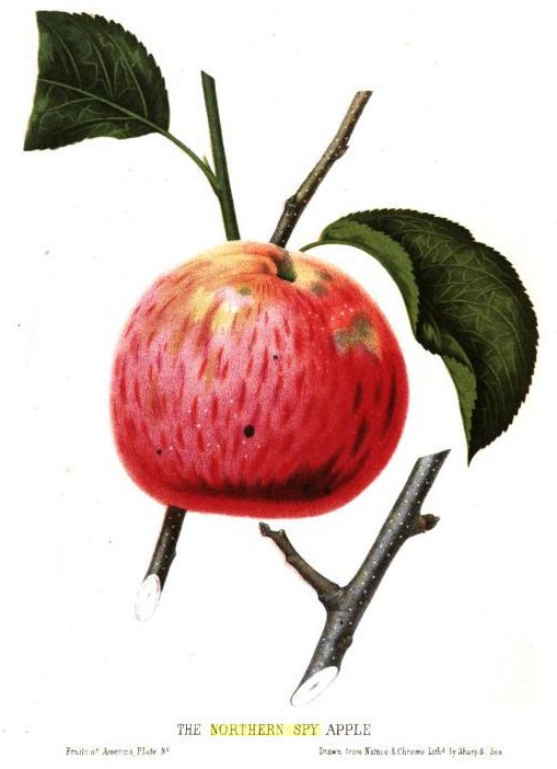 Northern spy apple